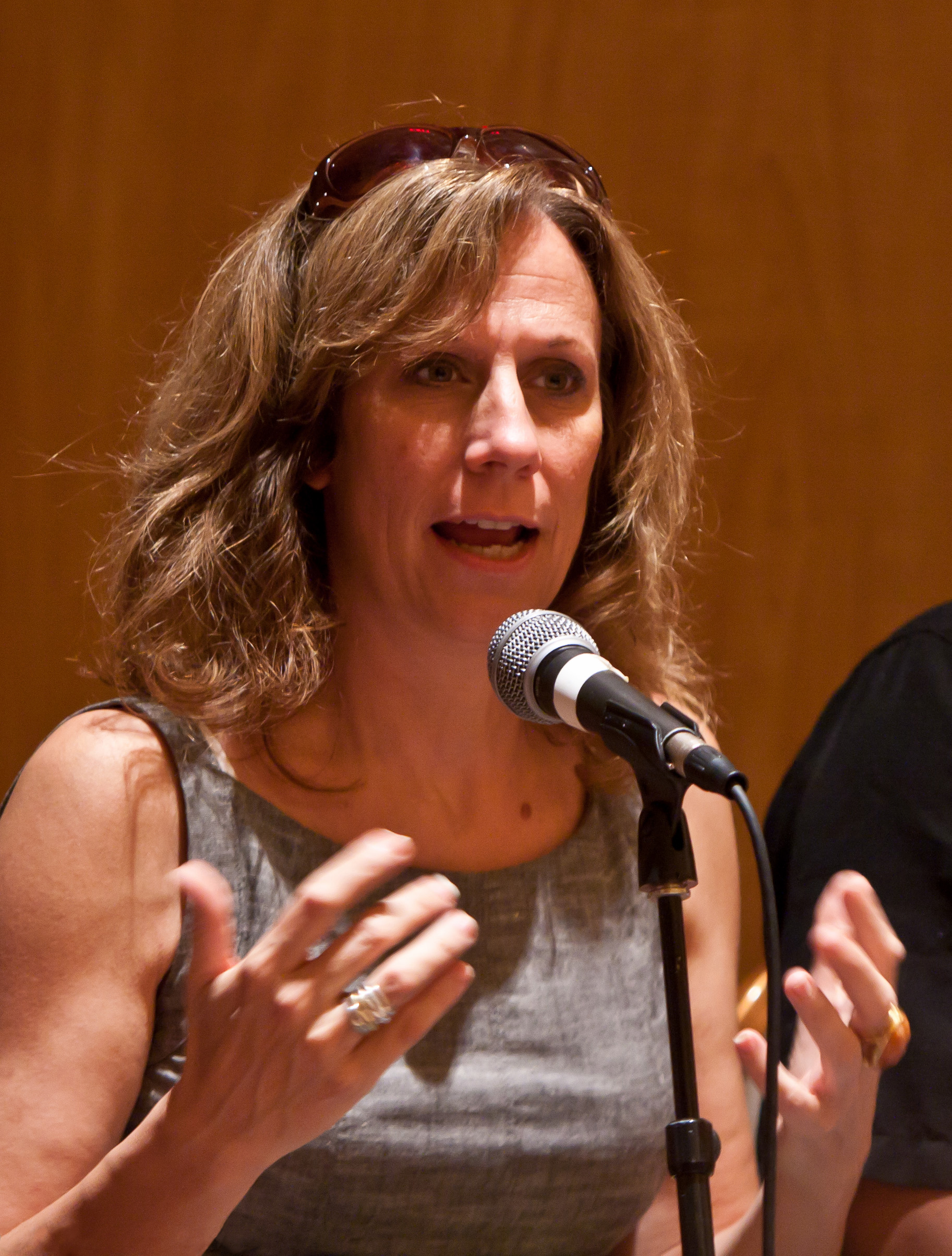 Lizz Winstead at the 2010 Netroots Nation conference.